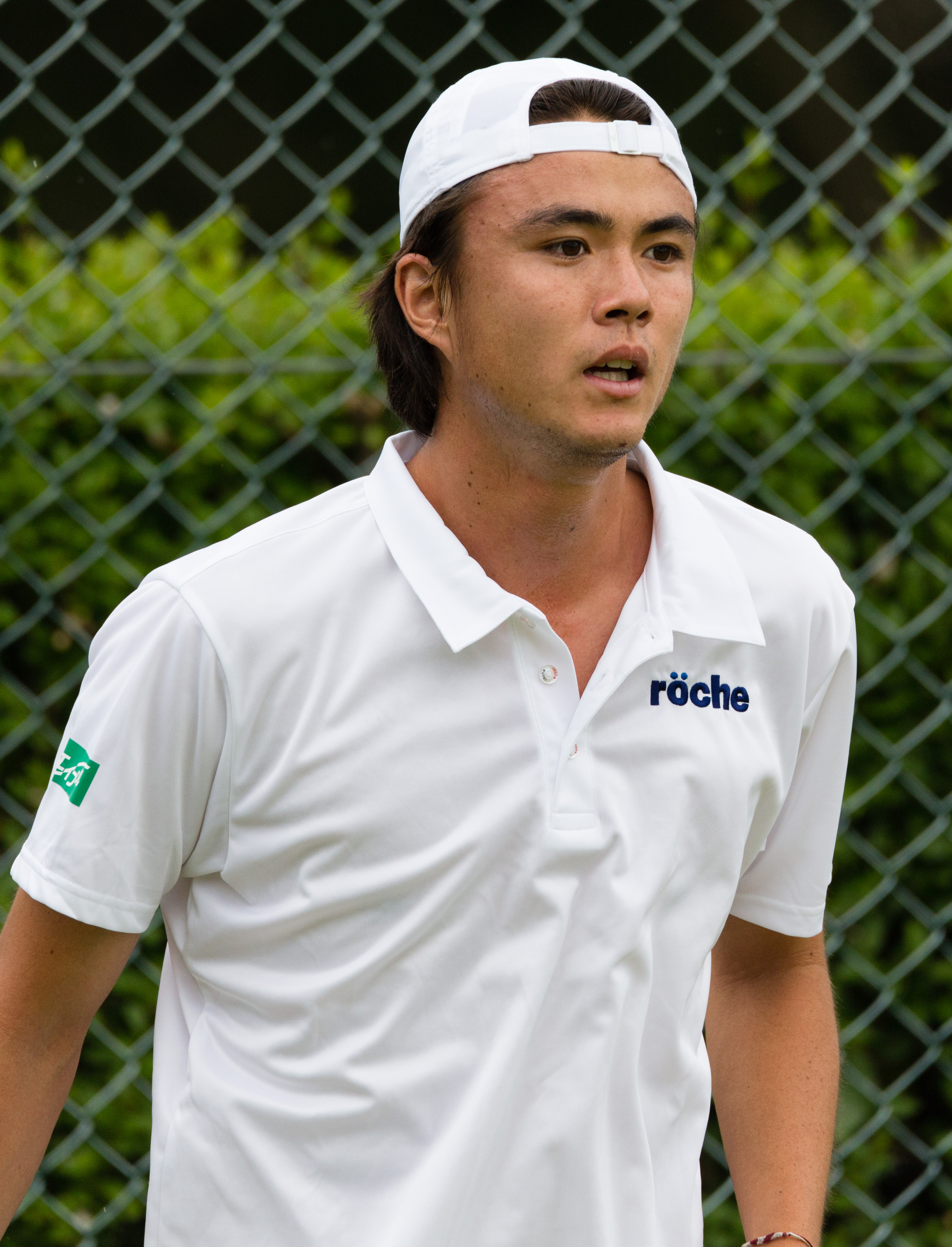 Taro Daniel competing in the first round of the 2015 Wimbledon Qualifying Tournament at the Bank of England Sports Grounds in Roehampton, England. The winners of three rounds of competition qualify for the main draw of Wimbledon the following week.